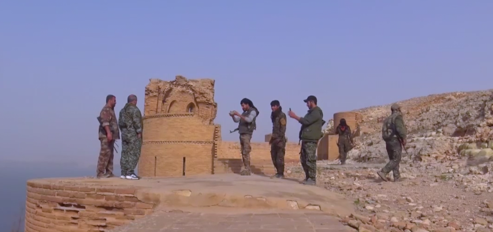 SDF fighters at Jabar Castle after capturing it from ISIL.